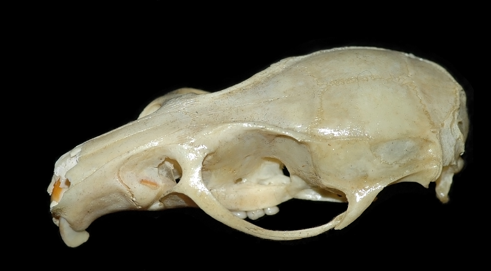 Skull of juvenile brown rat (Rattus norvegicus)